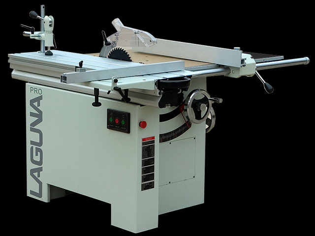 Pro Series tablesaw